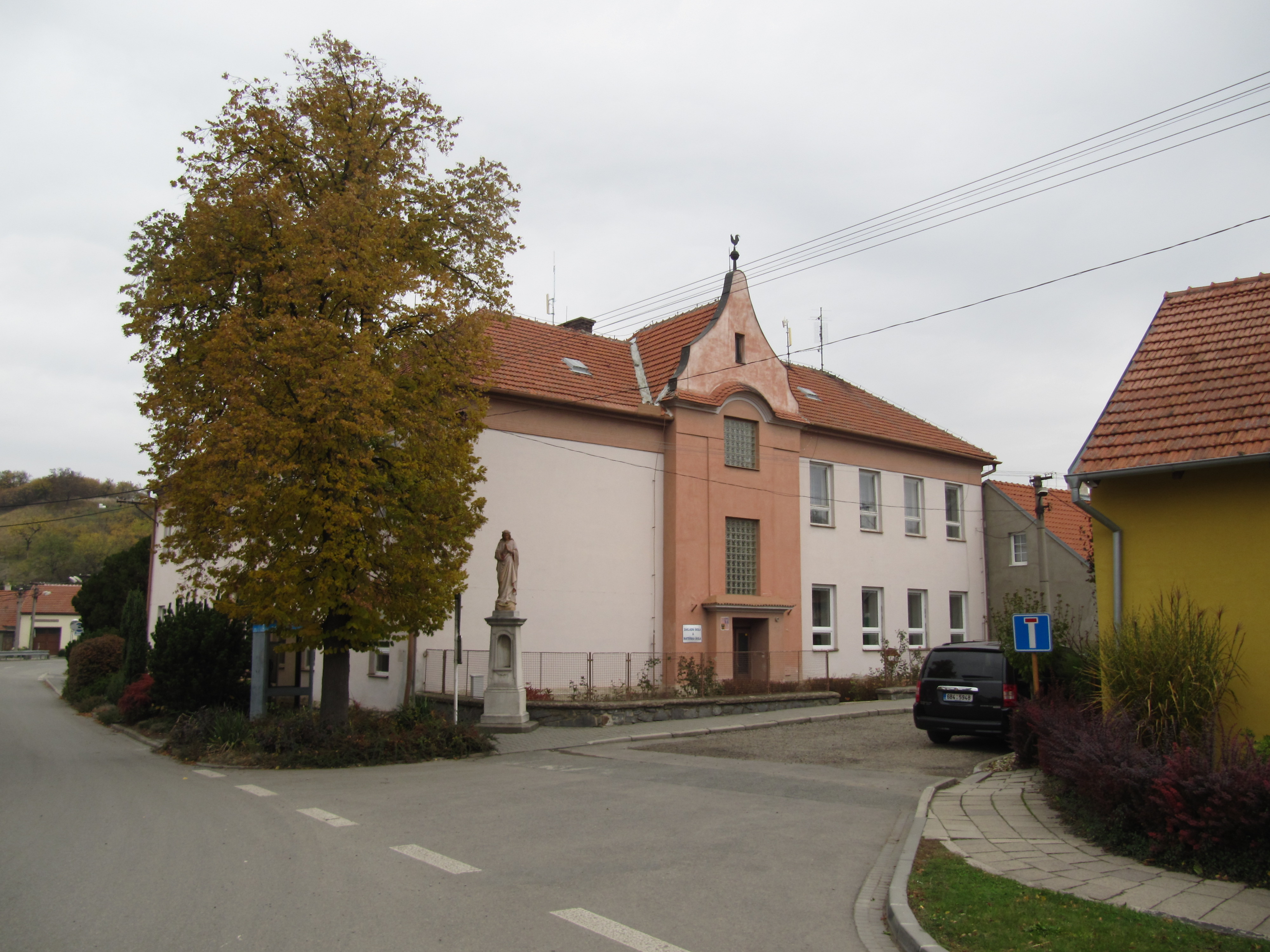 Vážany nad Litavou in Vyškov District, Czech Republic. School.